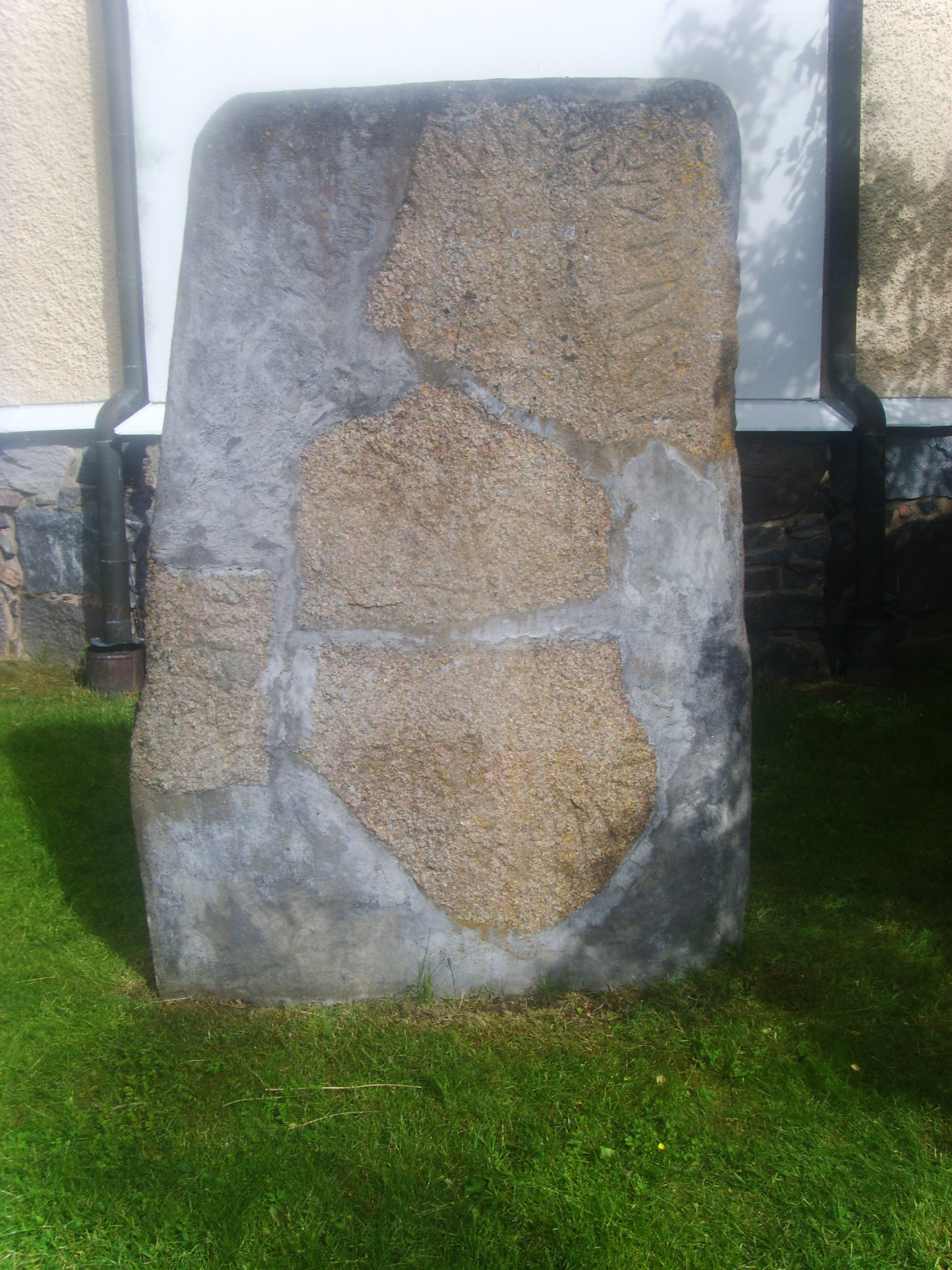 The Runestone outside the church in Mörlunda, Sm 152.